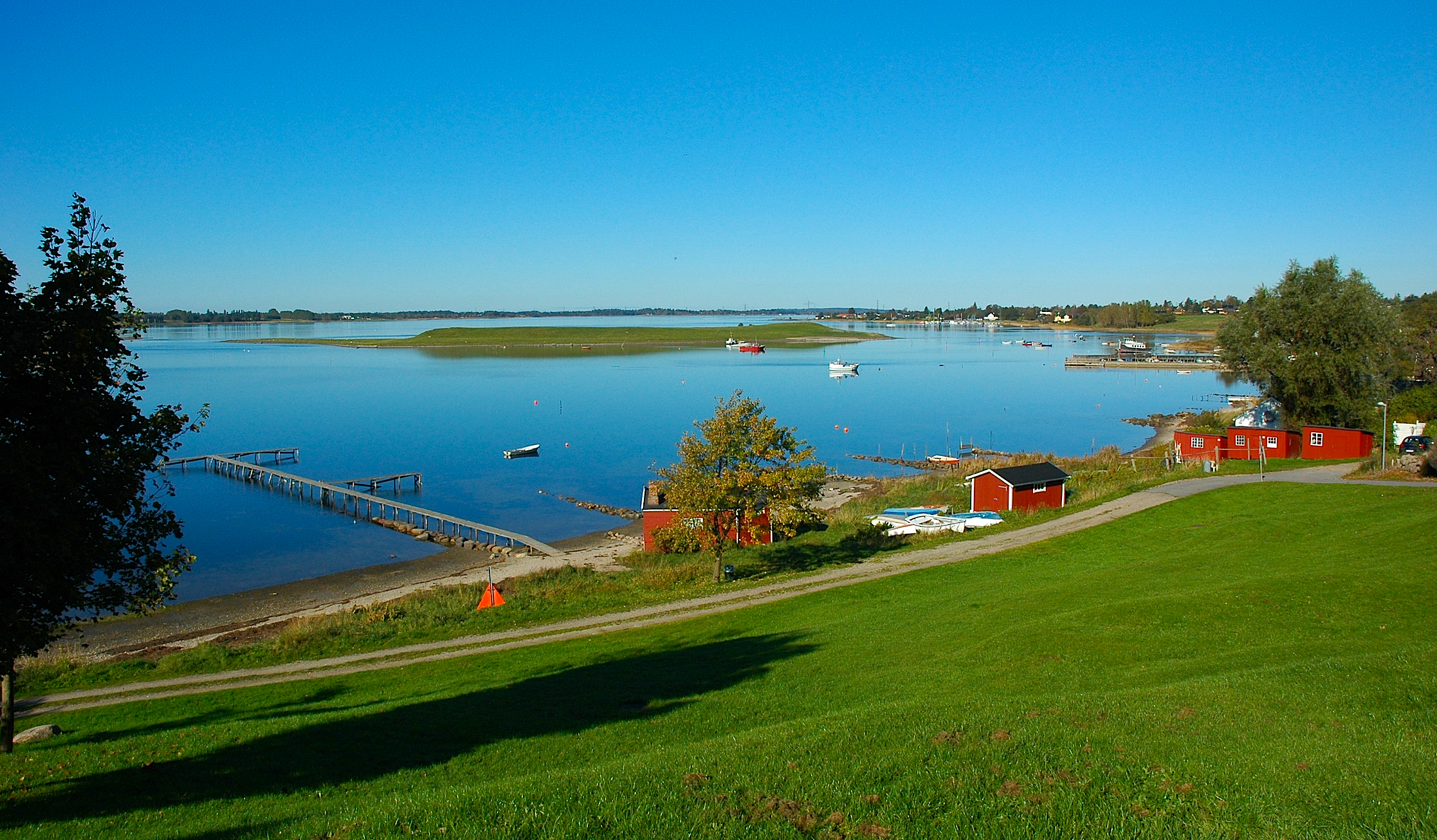 Jyllinge, Denmark. A general view of the fjord area (Roskilde Fjord).